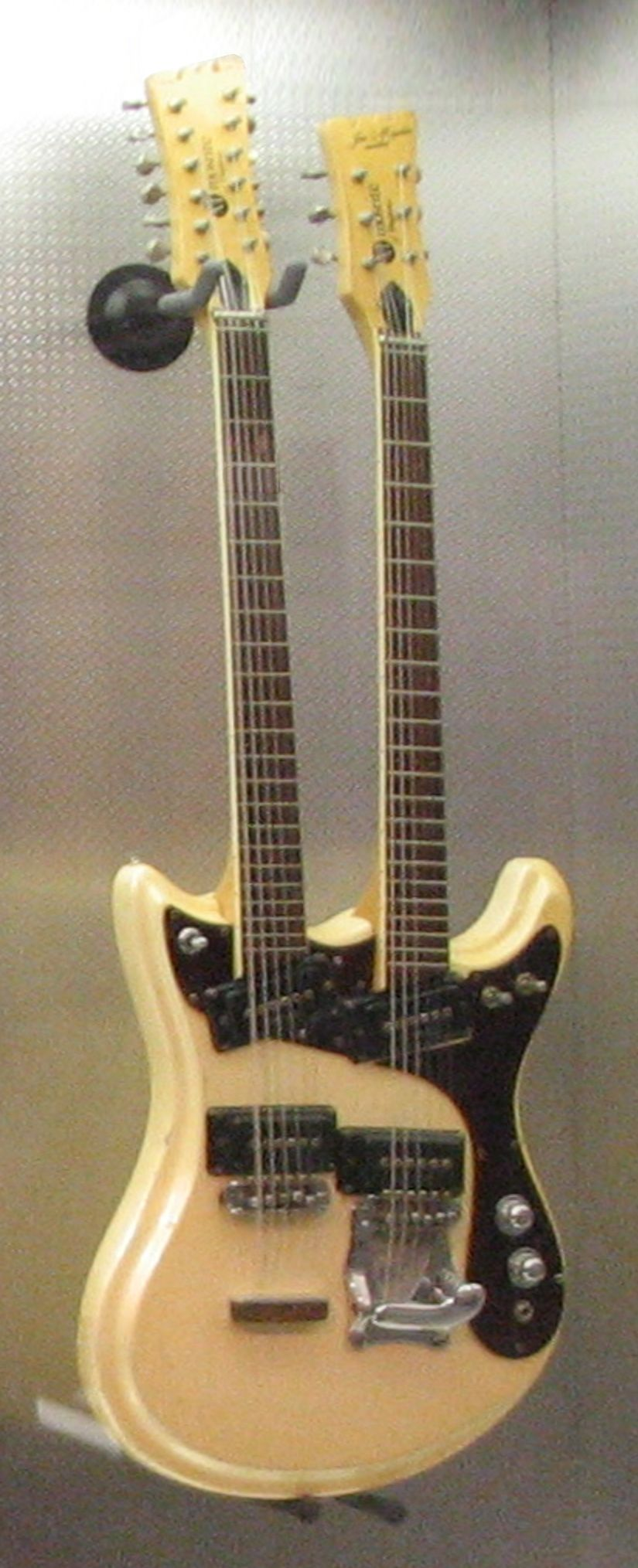 1968 Mosrite Joe Maphis Double Neck [1] from Rory Gallagher's collection exhibited at 'Born to Rock' at Harrods